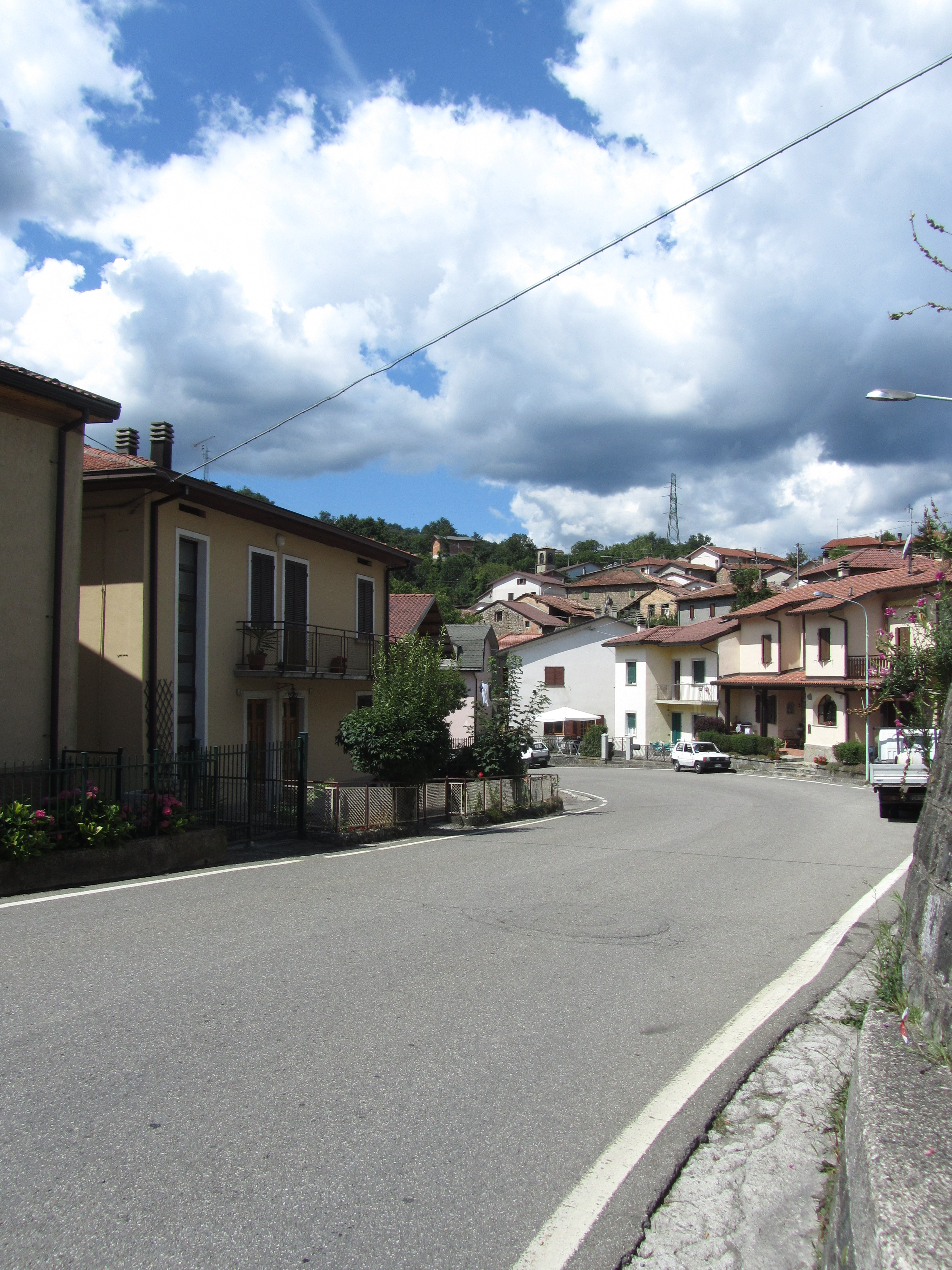 View of Cinquecerri di Ligonchio, province of Reggio Emilia.